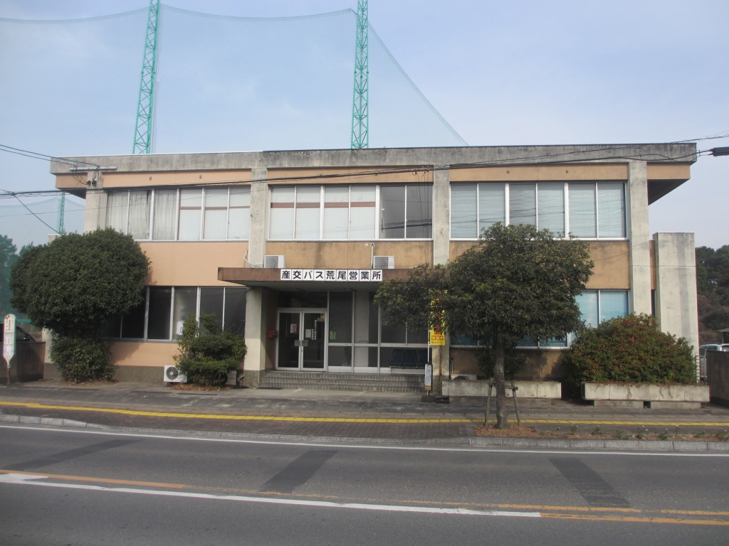 Sanko Bus Arao Depot